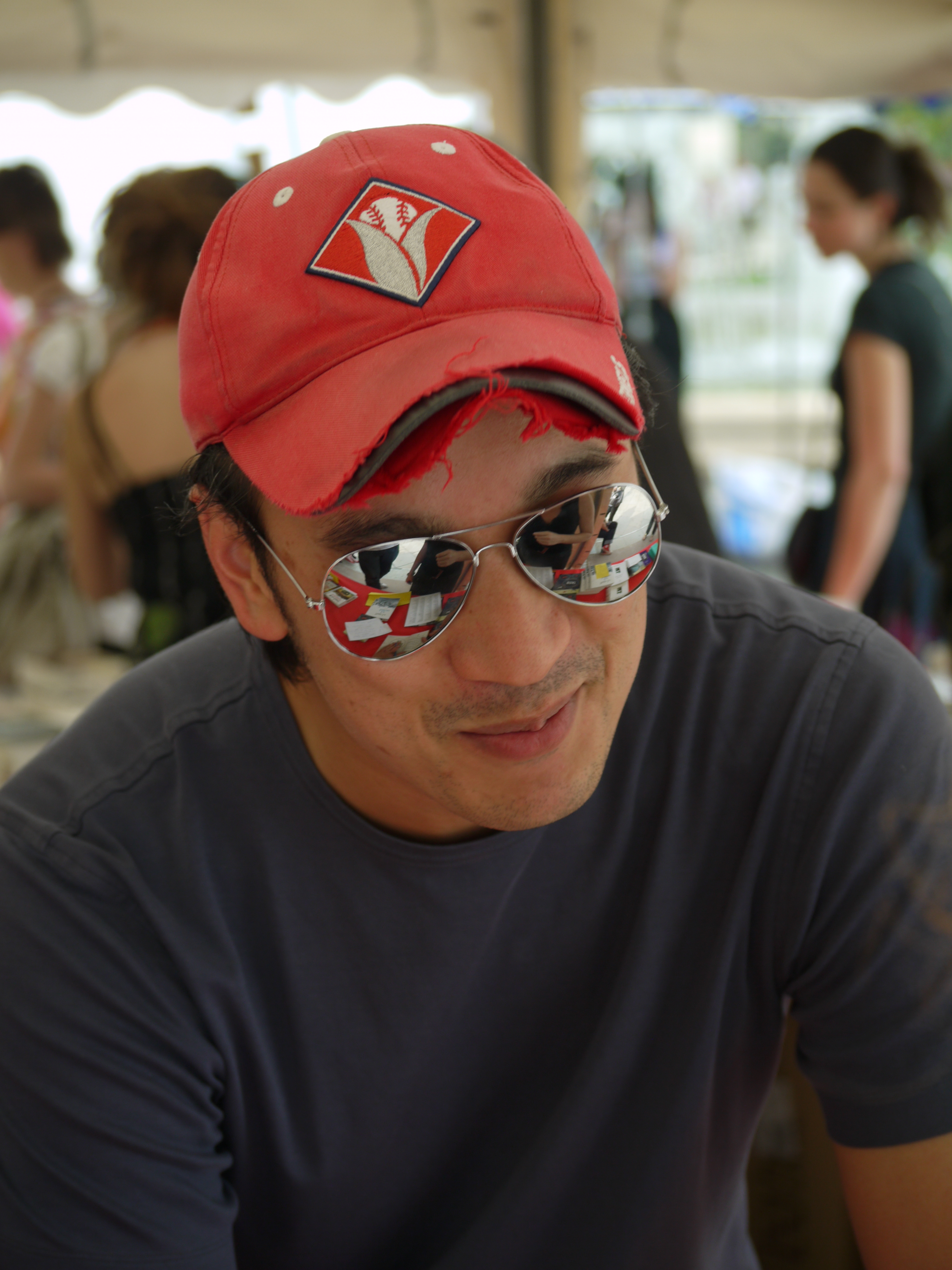 Comédie du Livre 2010 edition of Montpellier